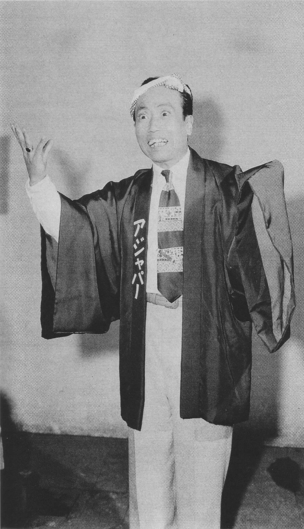 Junzaburo Ban (apanese comedian and actor).